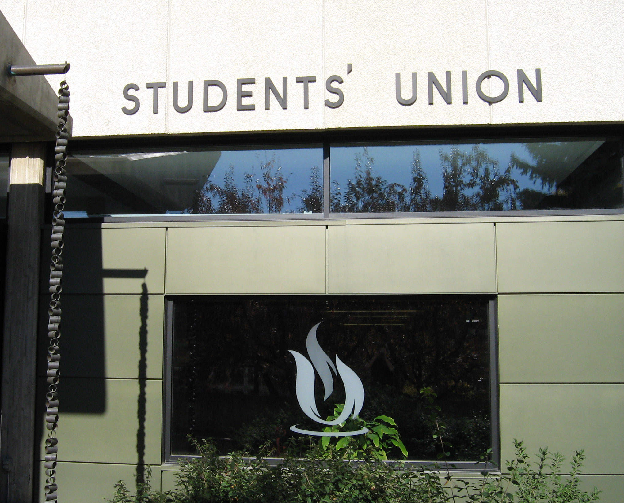 Photo taken to the right of the front (West) entrance to the Students' Union Building (SUB) at the University of Alberta. Students' Union logo is frosted on the glass.